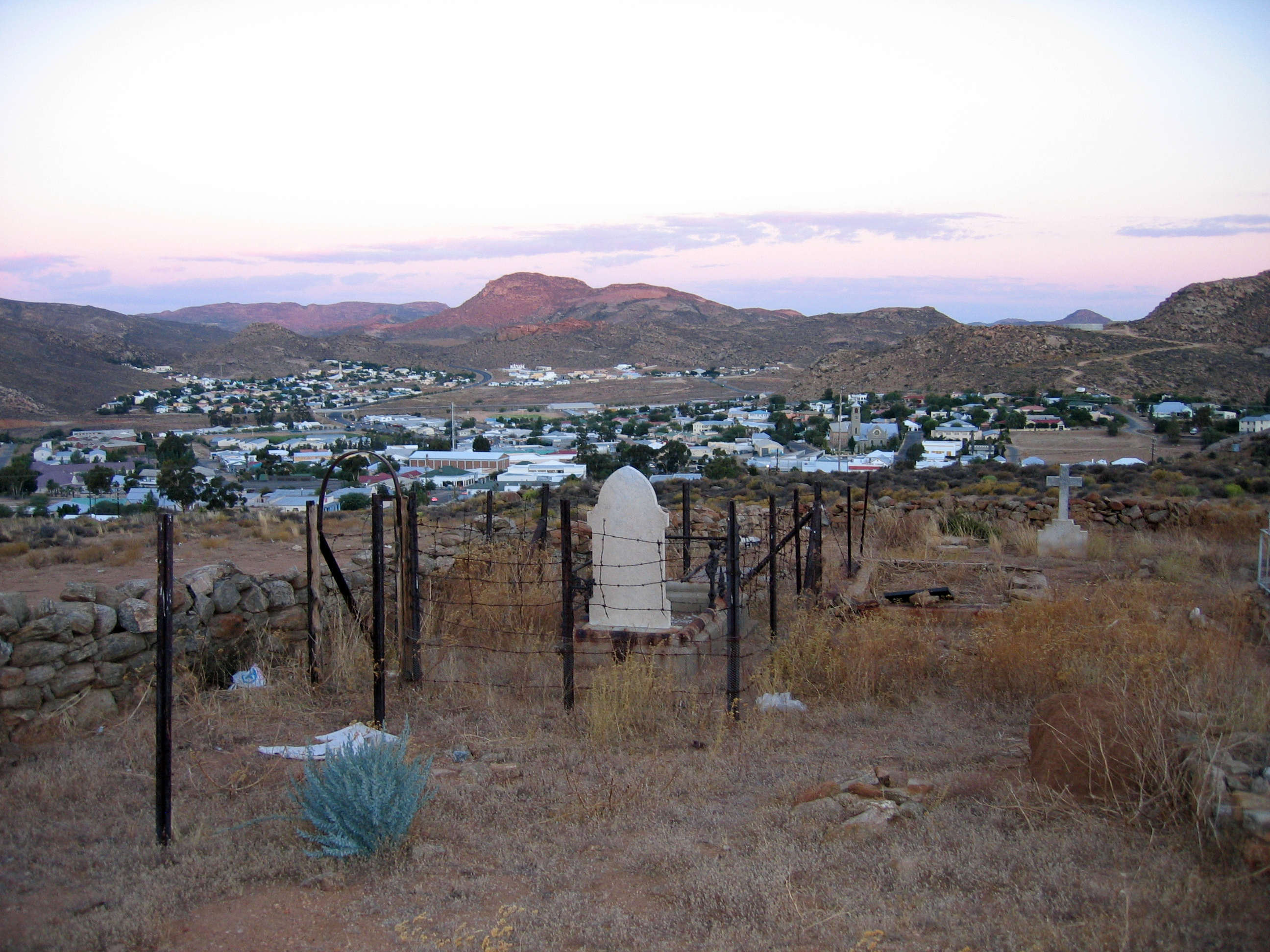 Springbok, South Africa, viewed from the old cemetery